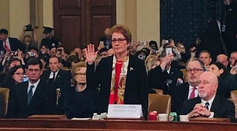 Ambassador Marie Yovanovitch has a long history of public service and is known as an anti-corruption champion. Today, we will hear from her directly about how her removal from Ukraine helped open the door for President Trump to pursue political investigations for his own gain.